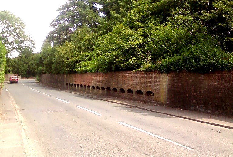 Photograph of wall grilles as a flood defense/prevension mechanism in Aldermaston, Berkshire